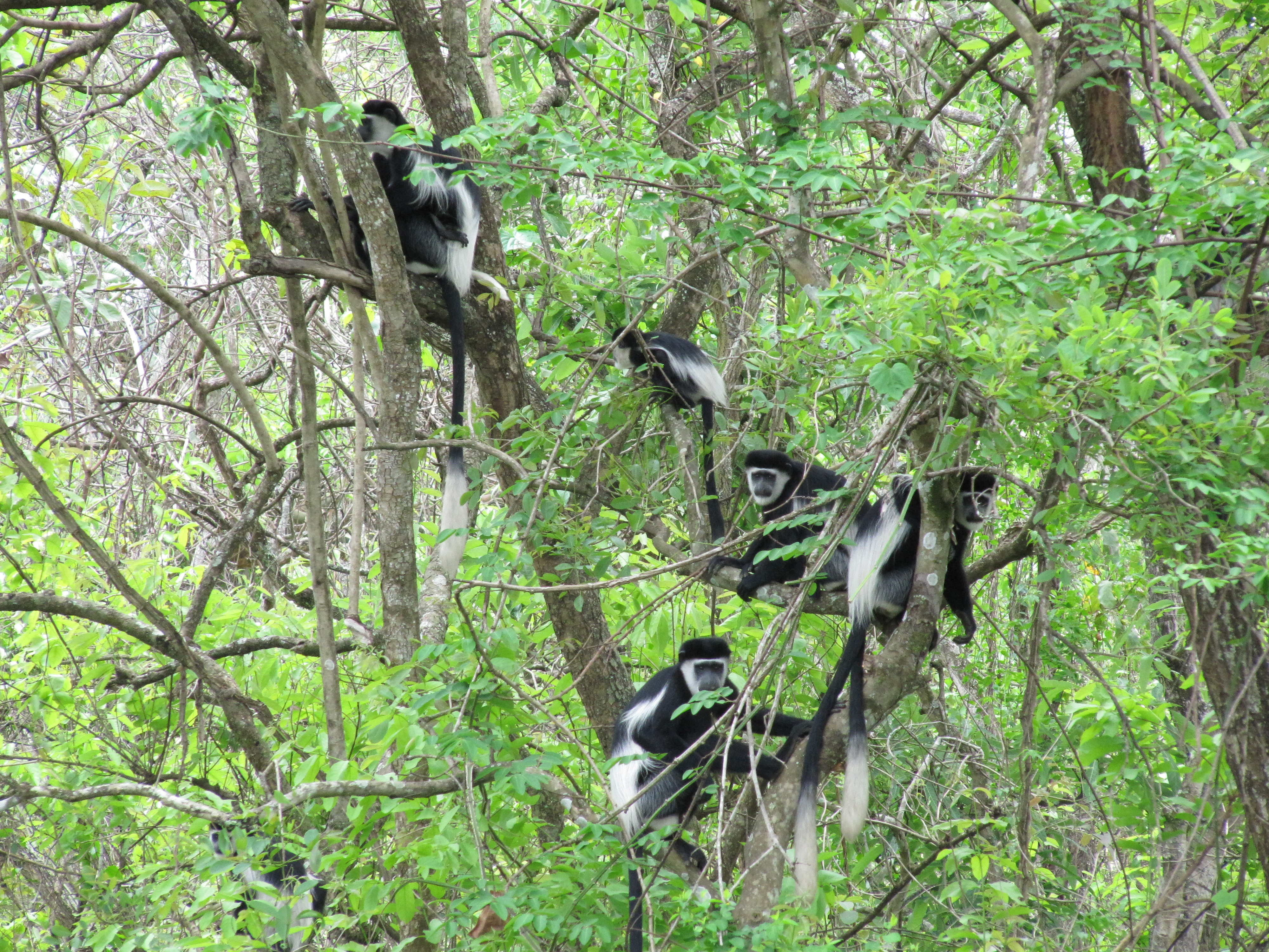 Black and white Colobuses in Murchison falls National Park